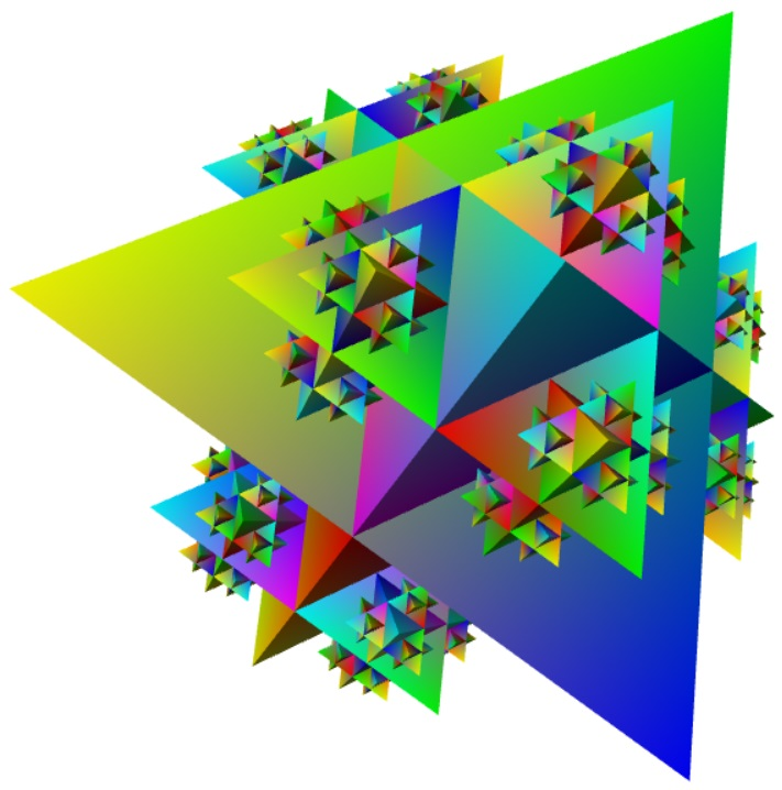 3D fractal geometry composed of regular tetrahedrons generated with LAI4D. In each iteration a new tetrahedron is placed at each free face of the tetrahedrons created in the previous iteration. The three vertices of the contact face of a new tetrahedron are obtained by linear interpolation from each of the three edges of the contact face of the old tetrahedron.